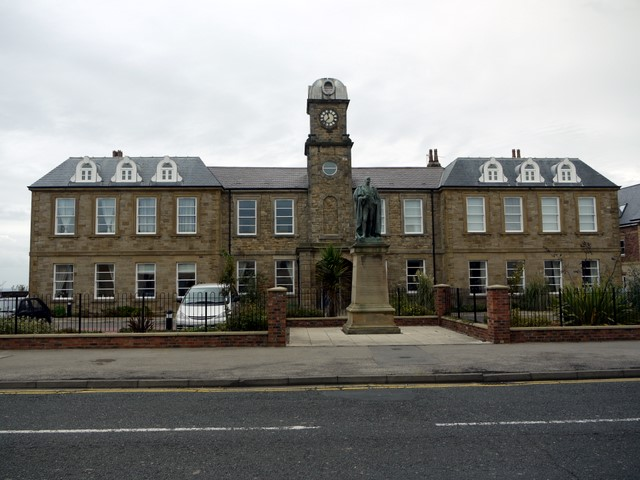 Marquis Point (former Londonderry Offices), Seaham From around 1860 this impressive building in North Terrace was the offices of the Londonderry operations in Seaham which involved land development and coal mining. More recently, it was the main station for Seaham Police. It has now again been redeveloped into luxury apartments Standing in front of the building, is the 1915 bronze statue by John Tweed to Charles Stewart Vane-Tempest Stewart, 6th Marquess of Londonderry K.G., G.C.V.O. (1852-1915)